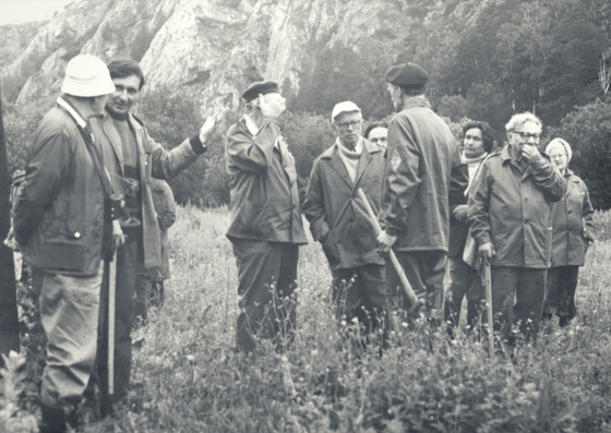 Congress of geologist